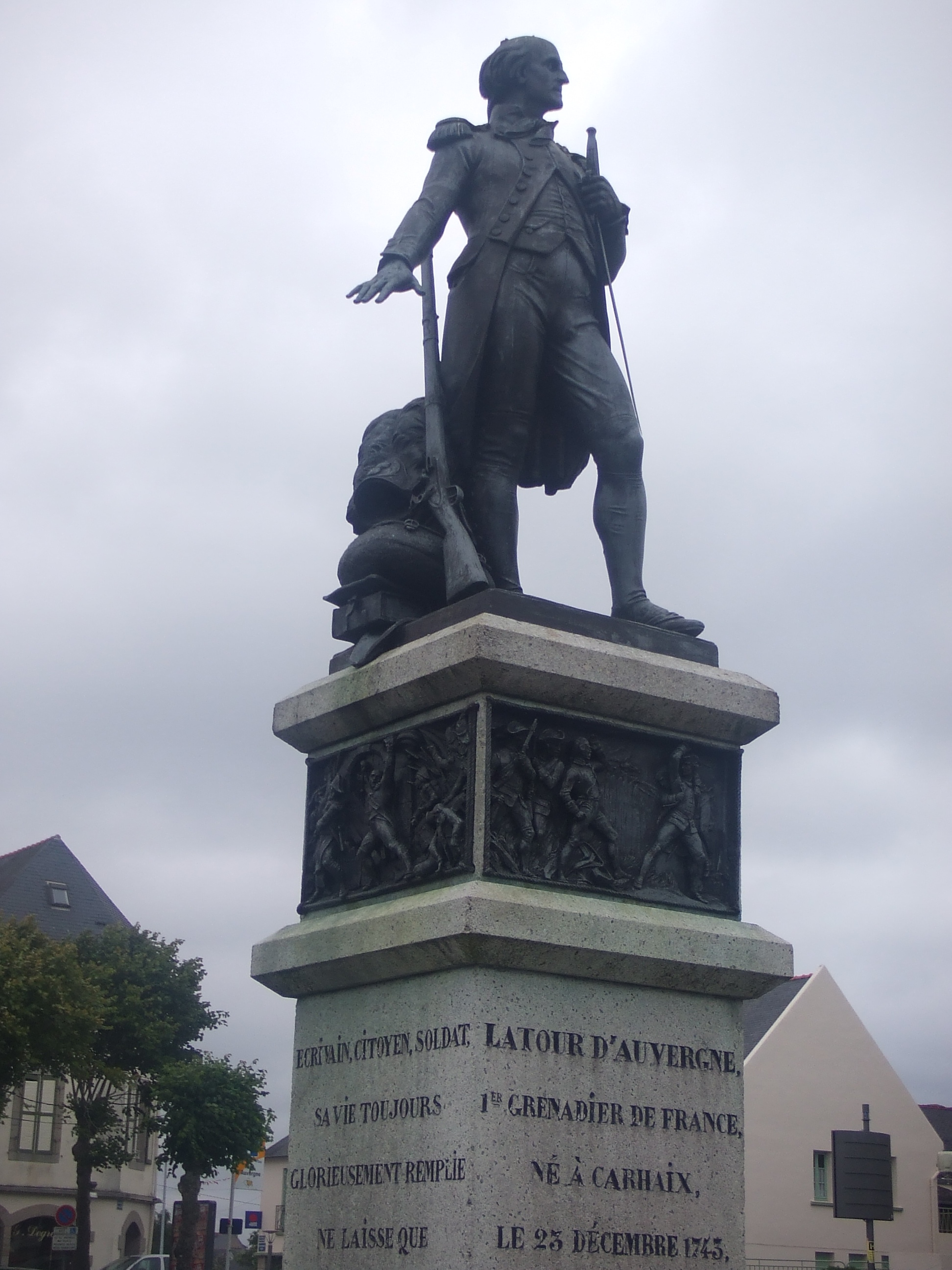 Statue of La Tour d'Auvergne, in Carhaix, Brittany. Sculpture by Carlo Marochetti (d 1867)